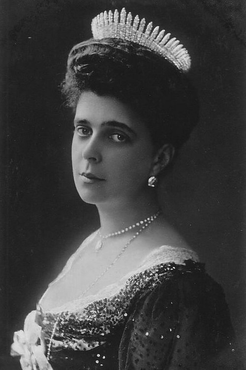 Portrait of Grand Duchess Elena Vladimirovna of Russia (1882-1957), Princess Nicholas of Greece This photo was listed as public domain on the Catalan Wikipedia Web site. Due to its age -- pre 1923 -- I think it is most likely public domain in the United States. If I am mistaken, please delete it.